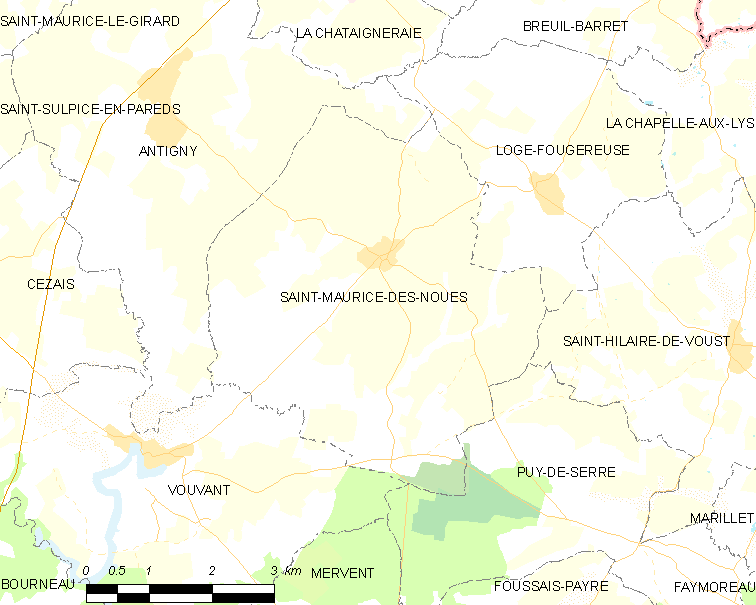 Map of French municipality Saint-Maurice-des-Noues